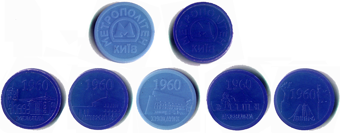 м